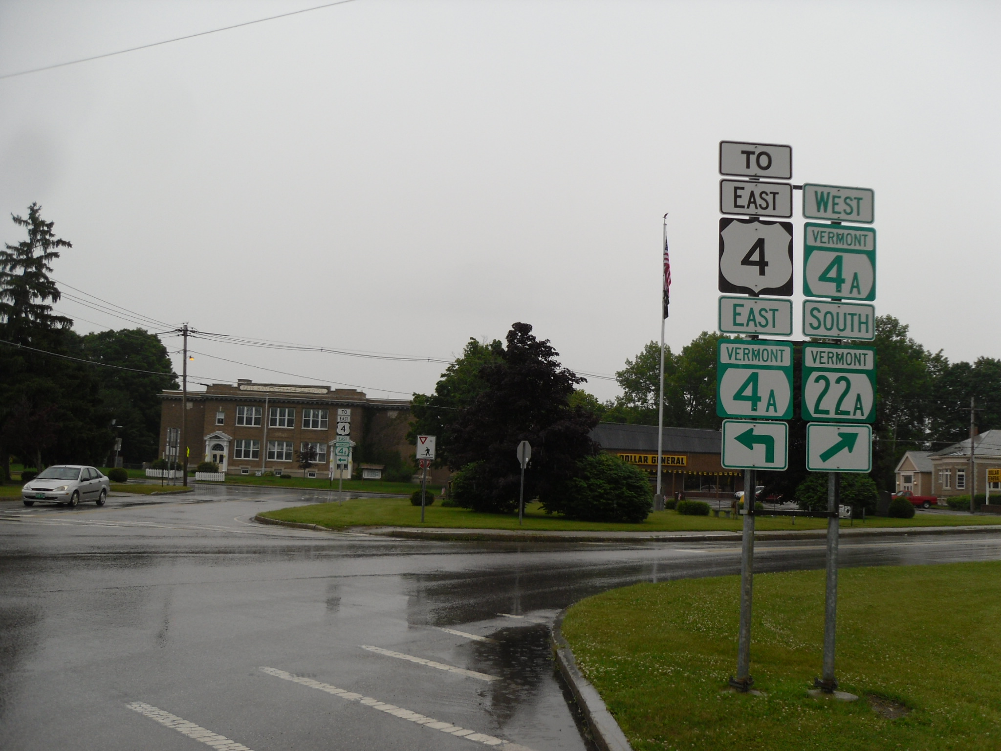 Vermont State Route 22A southbound at the junction with Vermont State Route 4A in Fair Haven.